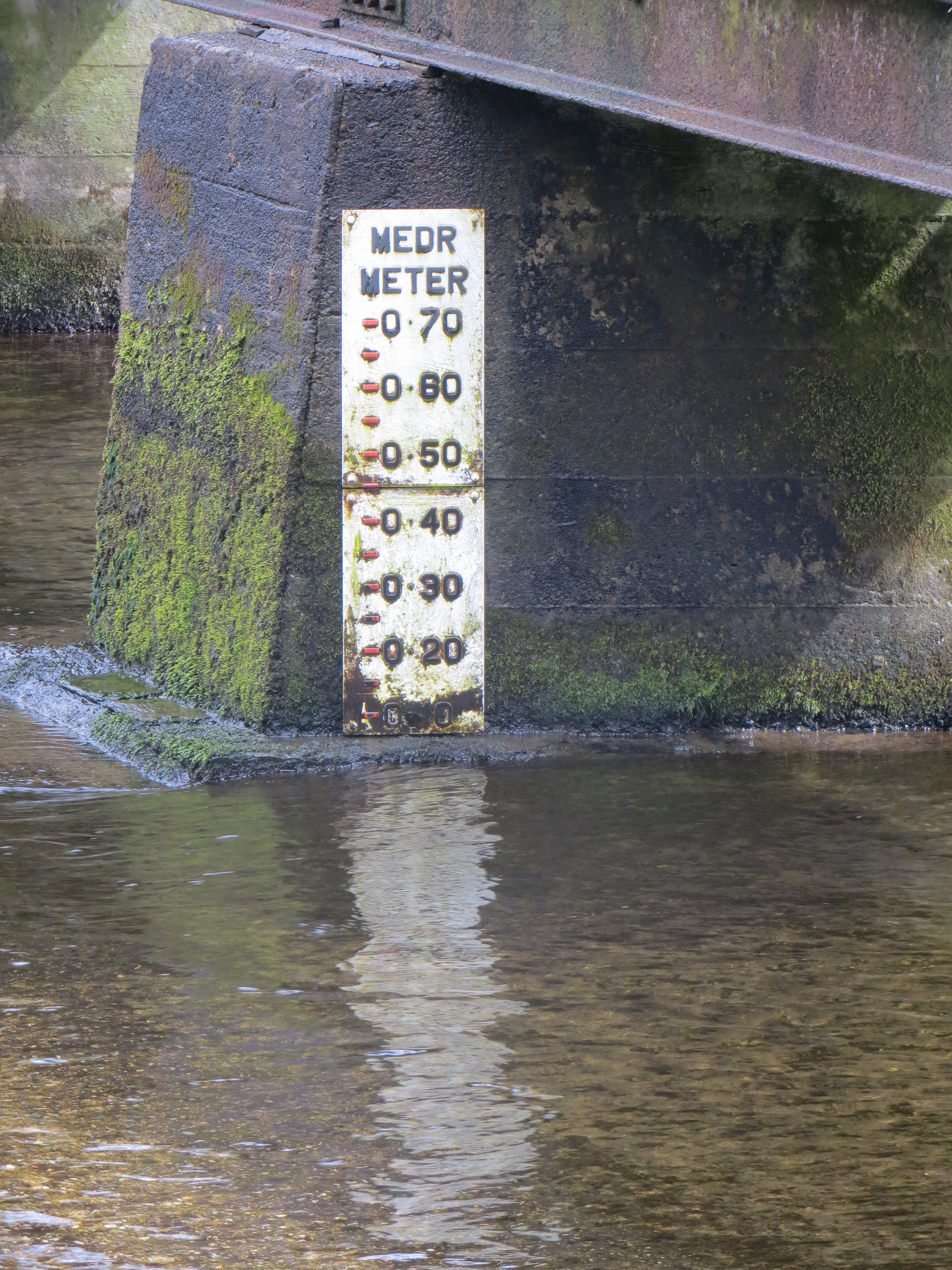 Ford depth gauge. Bilingual, in English and Welsh - though strangely, "metre" is misspelled.